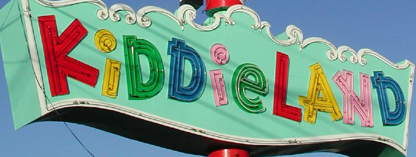 Kiddieland Amusement Park 8400 W North Ave # 1 Melrose Park, IL 60160 See where this picture was taken. ?